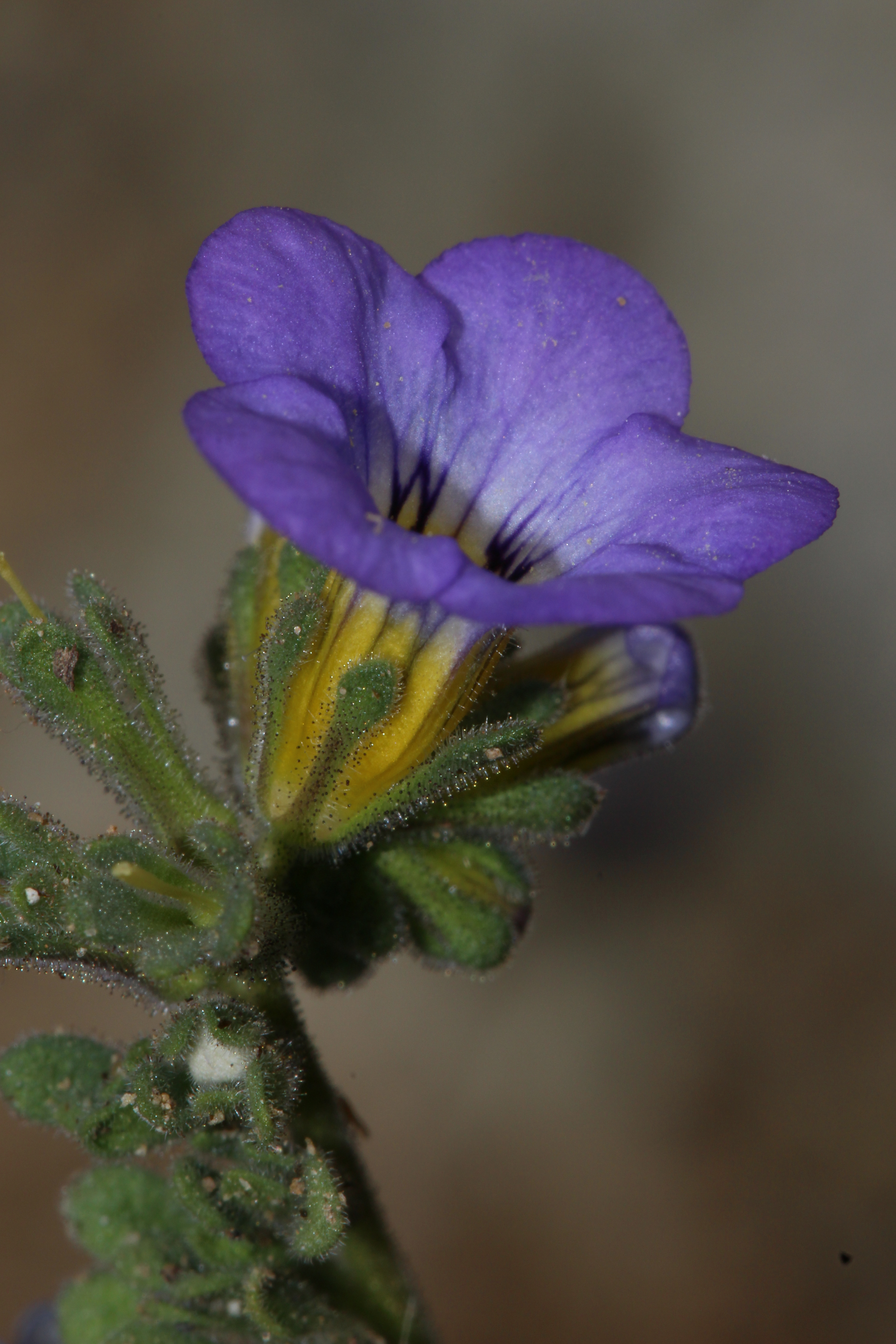 Fremont's Phacelia Identification by: Linda Edwards and Vern Benhart Viewpoint location: Dry wash west of Godde Hill Road, 150 m north of Hacienda Ranch Road; Lancaster, California Viewpoint elevation: 948 meter (3111 ft) Location source: Garmin GPSmap 60CSx Location Datum: WGS84